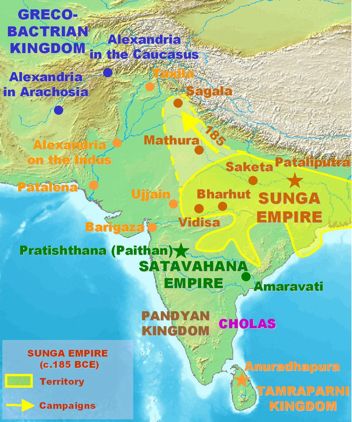 Map of the Sunga Empire. Reference: Metropolitan Museum of Art (here) + literary reference regarding the attack on Sagala (from the Asokavadana).